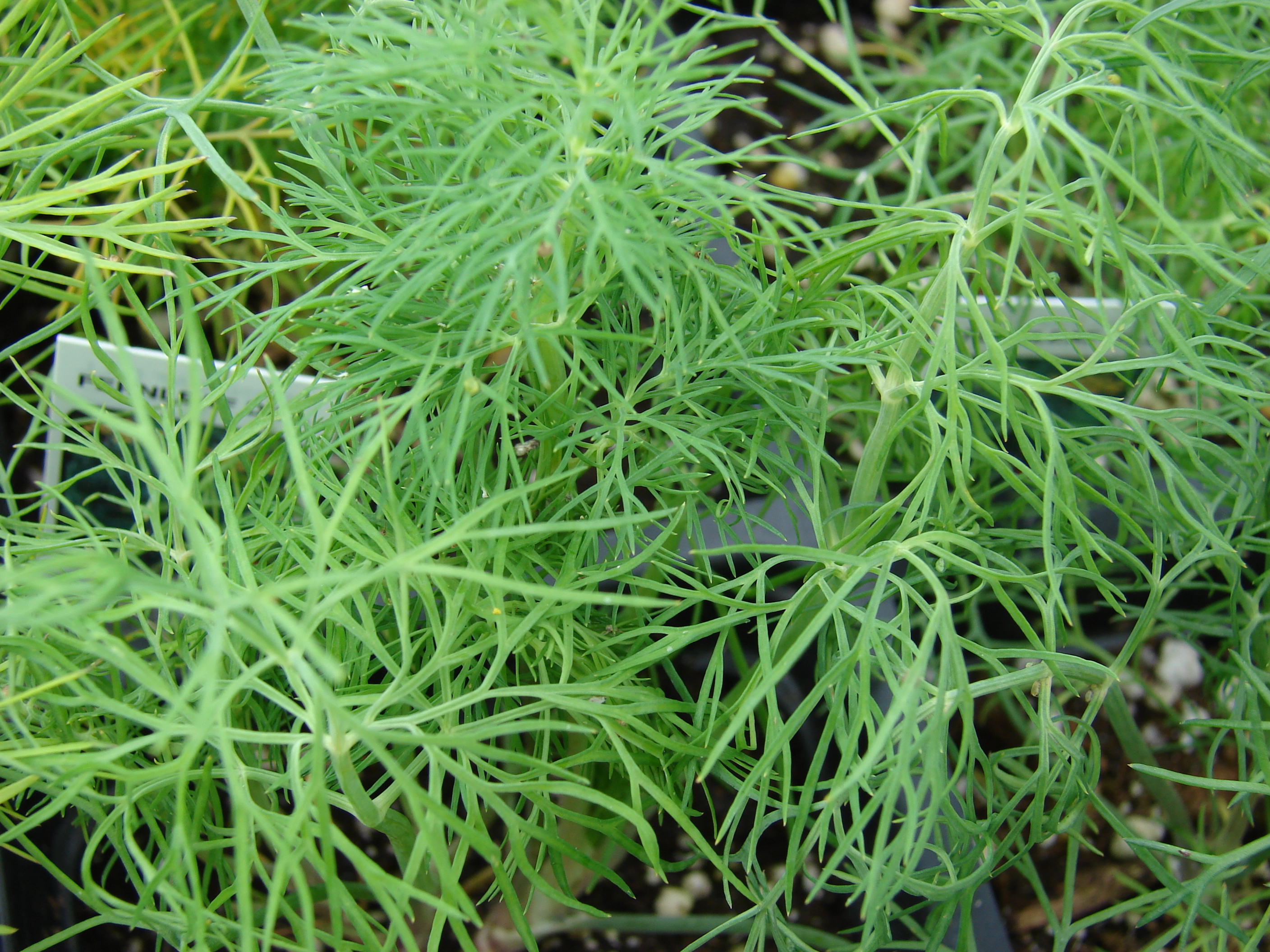 Anethum graveolens (leaves). Location: Maui, Kula Ace Hardware and Nursery